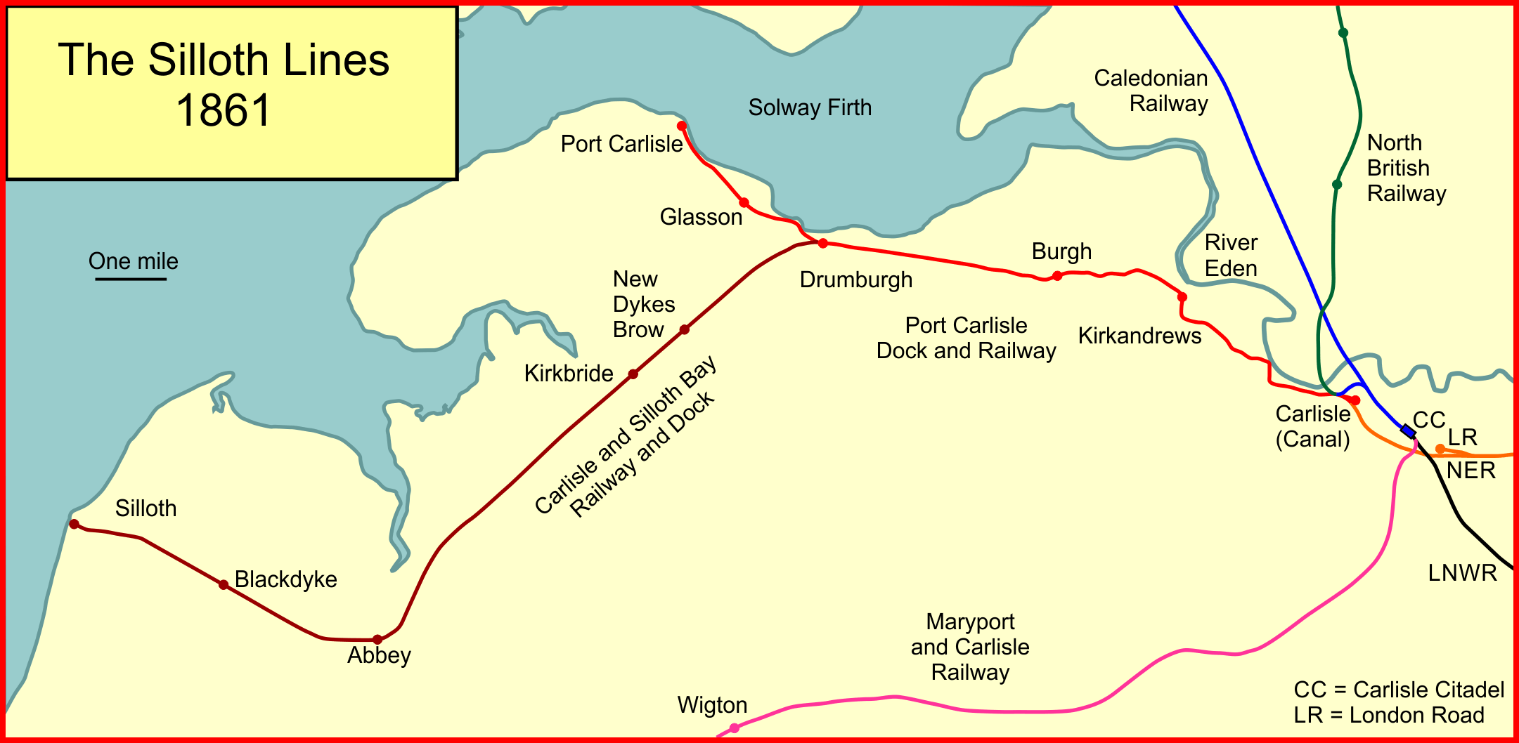 System map of the Silloth railways lines, Cumberland, England, in 1861, after the opening of the Waverley route